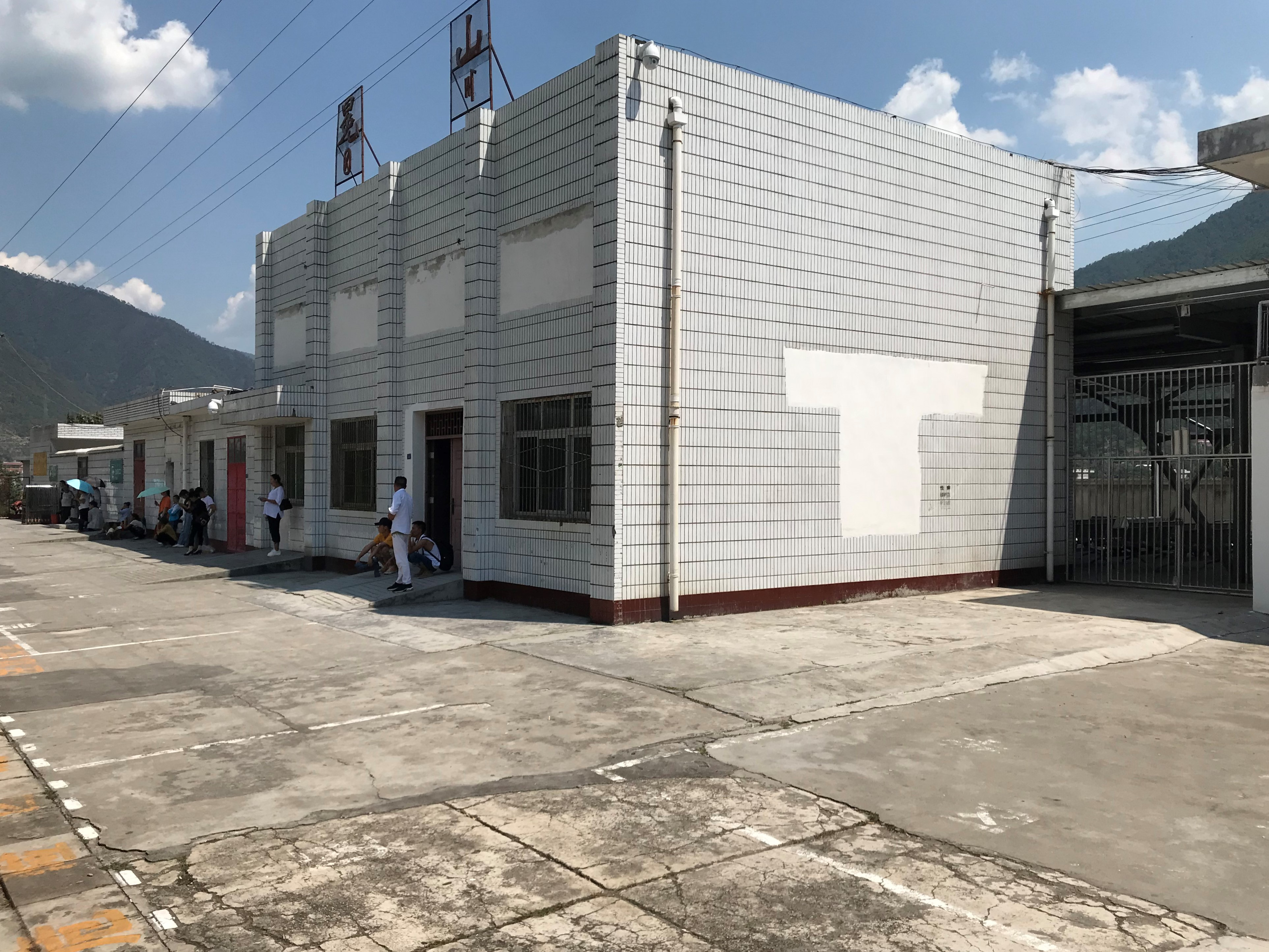 201908 Station Building of Mianshan Station